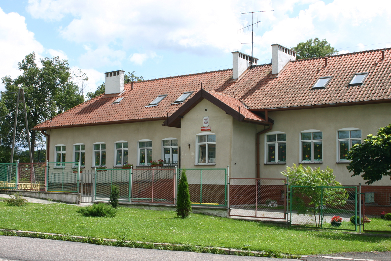 Winda - OpenStreetMap(Info)